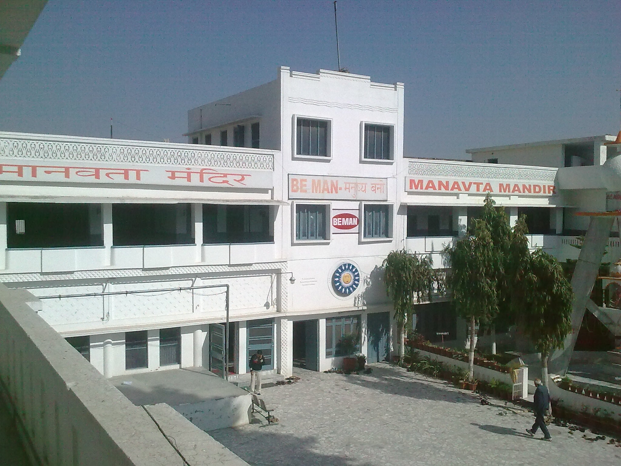 I am the owner of this photograph. I took it with my camera during my visit to Manavta Mandir Hoshiarpur. I submit it under Copyleft: This work of art is free; you can redistribute it and/or modify it according to terms of the Free Art License. You will find a specimen of this license on the Copyleft Attitude site as well as on other sites. .Bhagat.bb (talk)--B3 07:21, 5 June 2010 (UTC)